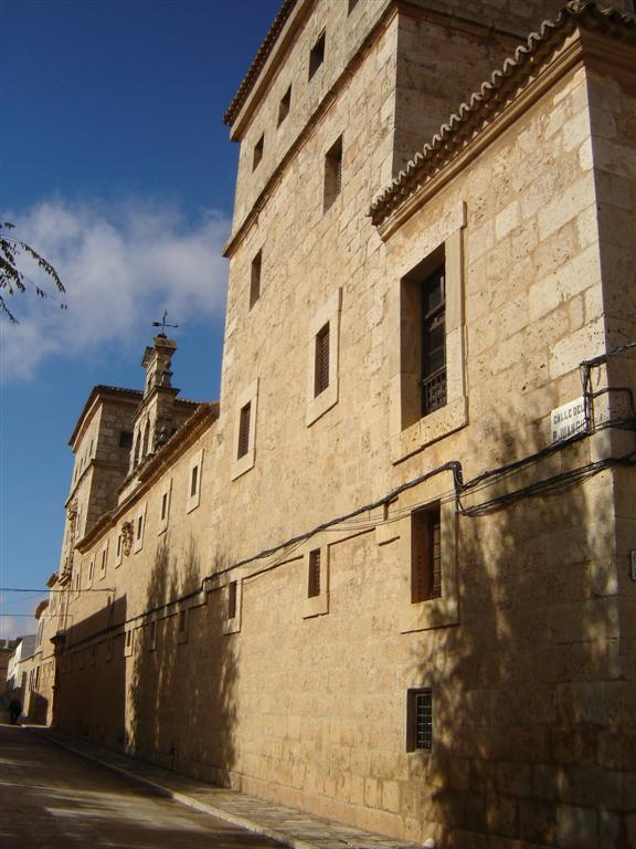 Convento de la Inmaculada y San José, El Toboso, Toledo, Spain